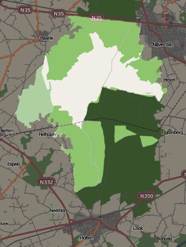 This map may be incomplete, and may contain errors. Don't rely solely on it for navigation.